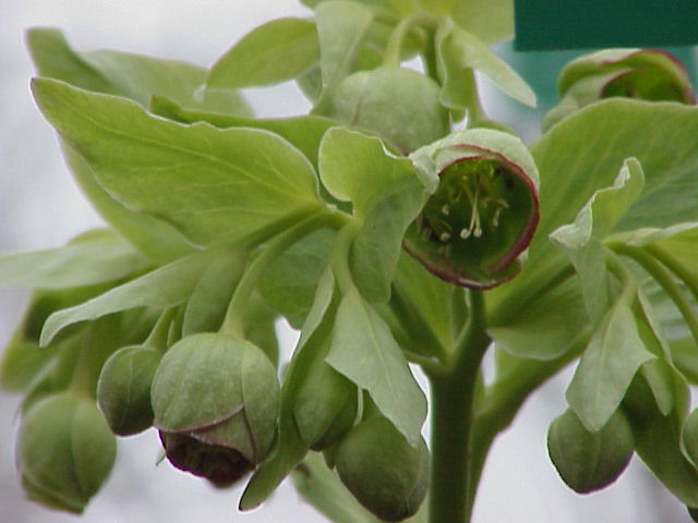 Species: Helleborus foetidus Family: Ranunculaceae Image No. 1